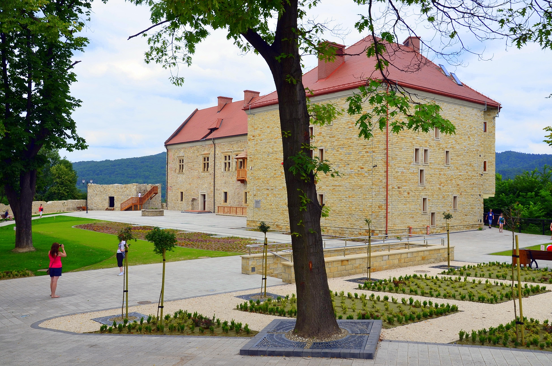 Sanok Castle in 2013